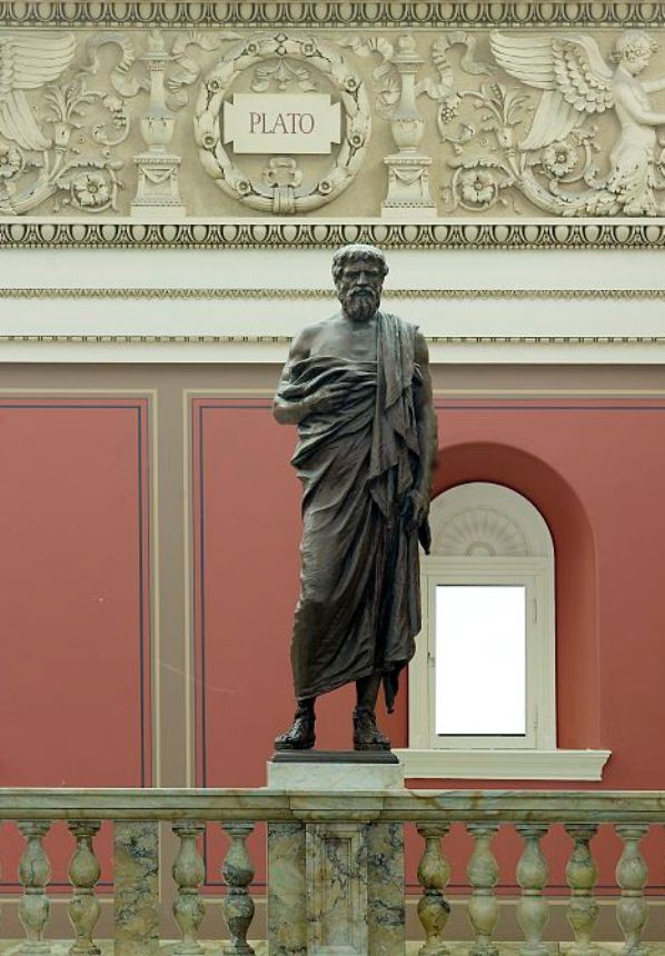 Main Reading Room. Portrait statue of Plato along the balustrade. Library of Congress Thomas Jefferson Building, Washington, D.C. (cropped) sculptor John J. Boyle